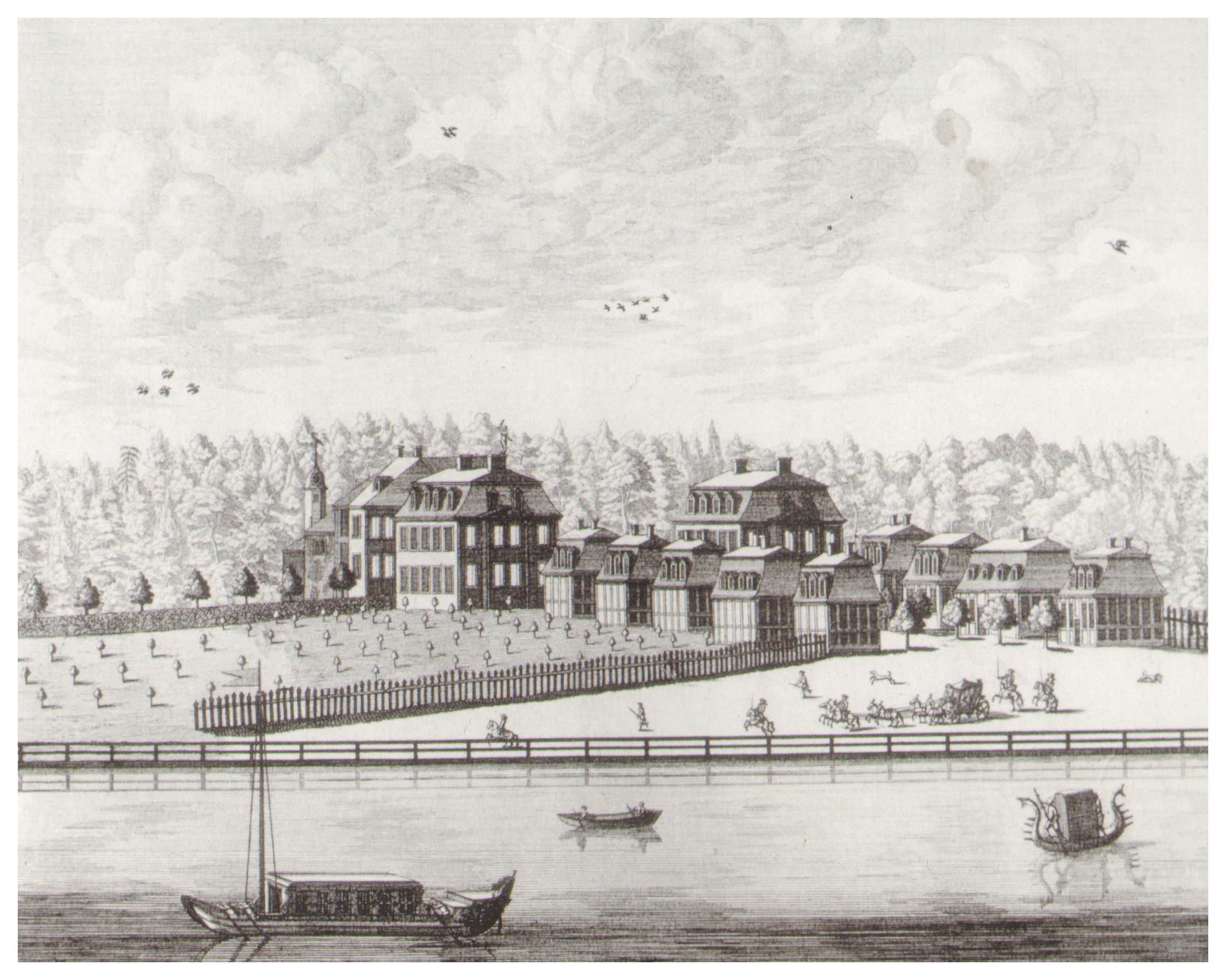 Wilhelmsthal castle - time of commencement.